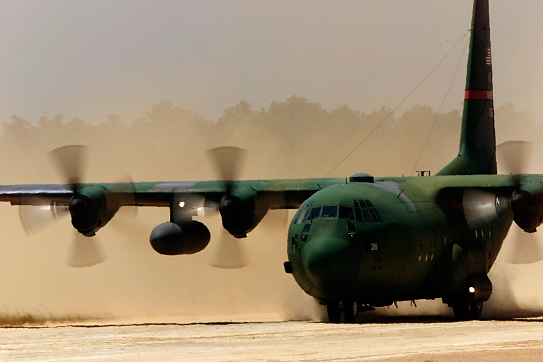 FORT BRAGG, N.C. -- A C-130 Hercules from the 165th Air Wing, Savannah Ga., performs an assault landing on a dirt landing strip at Holland Drop Zone, here, May 8, 2000. The assault landing competition is part of Rodeo 2000. During Rodeo 2000, teams from all over the world compete in areas including airdrop, aerial refueling, aircraft navigation, special tactics, short field landings, cargo loading, engine running on/offloads, aeromedical evacuations and security forces operations.